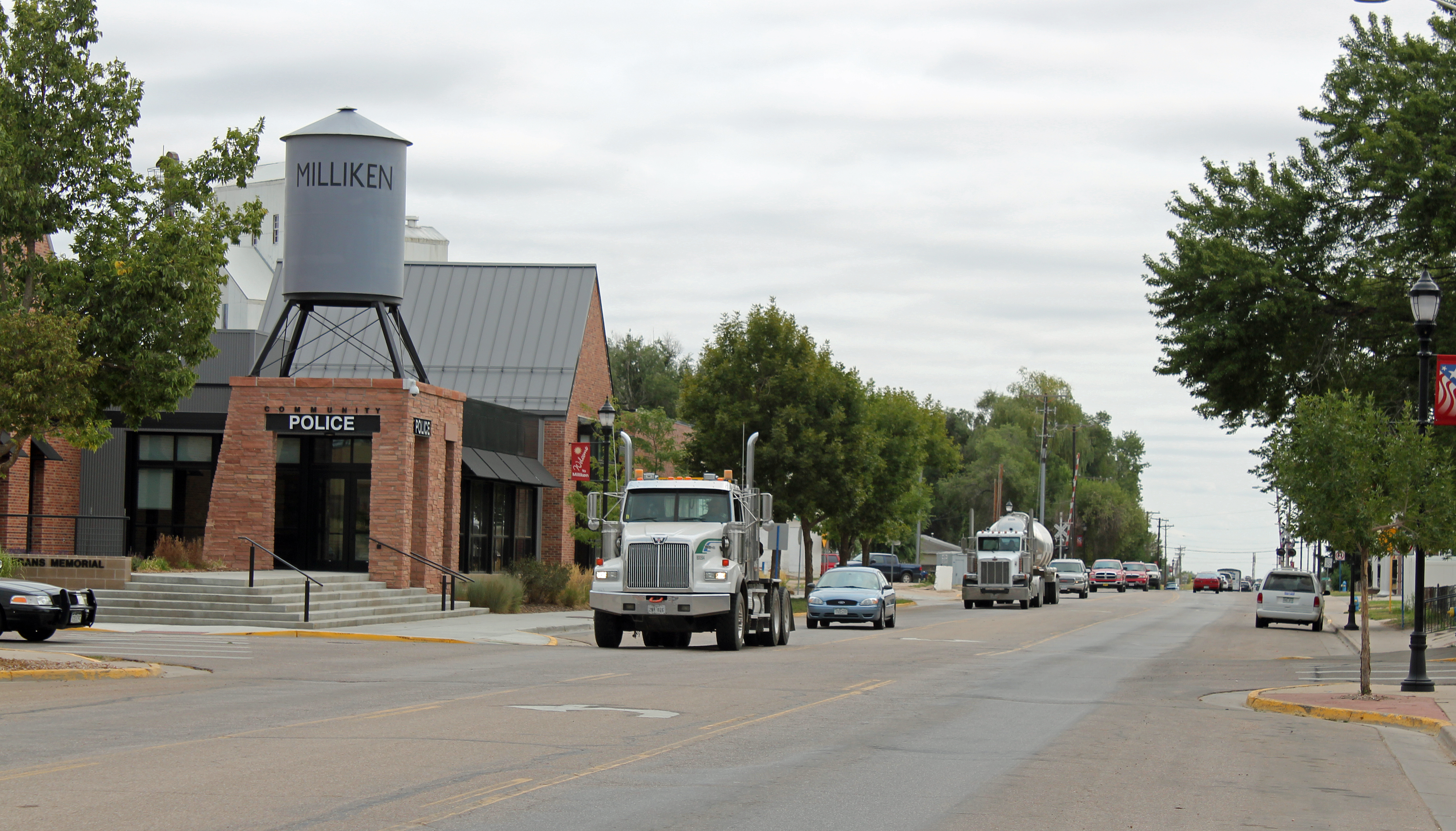 The main street in Milliken, Colorado.